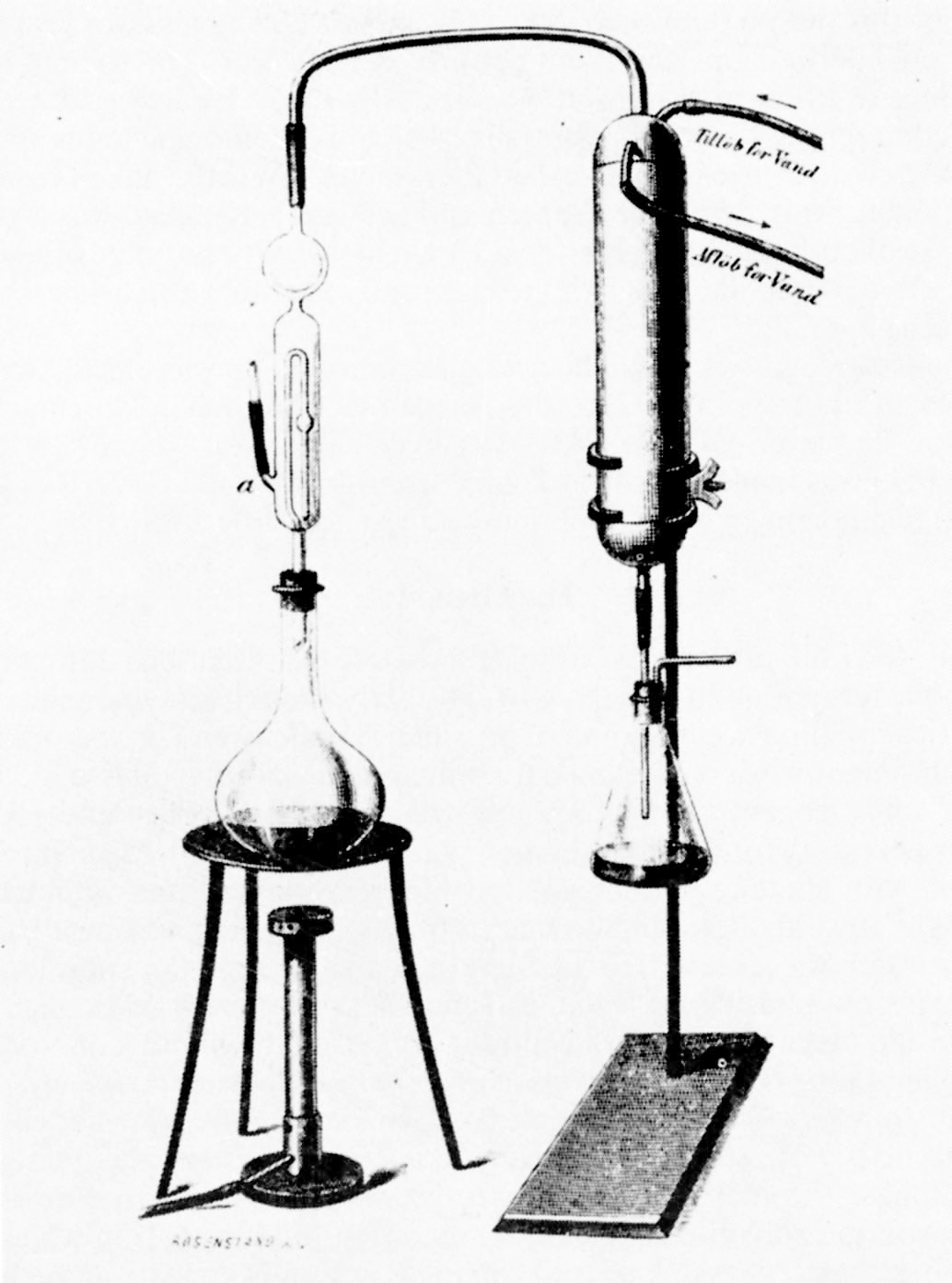 Original apparatus as designed by Danish chemist Johan Kjeldahl (1849-1900) for his method for determination of nitrogen in organic samples; Artistic technique: woodcut